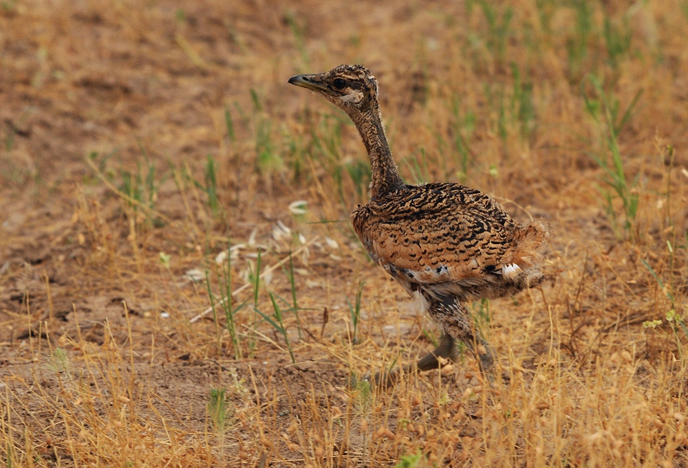 Great bustard(juvenile) Kurdî: Çêlika Betê.